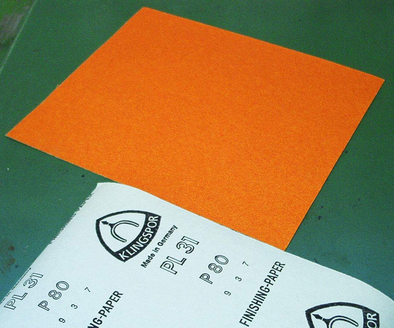 Sandpaper